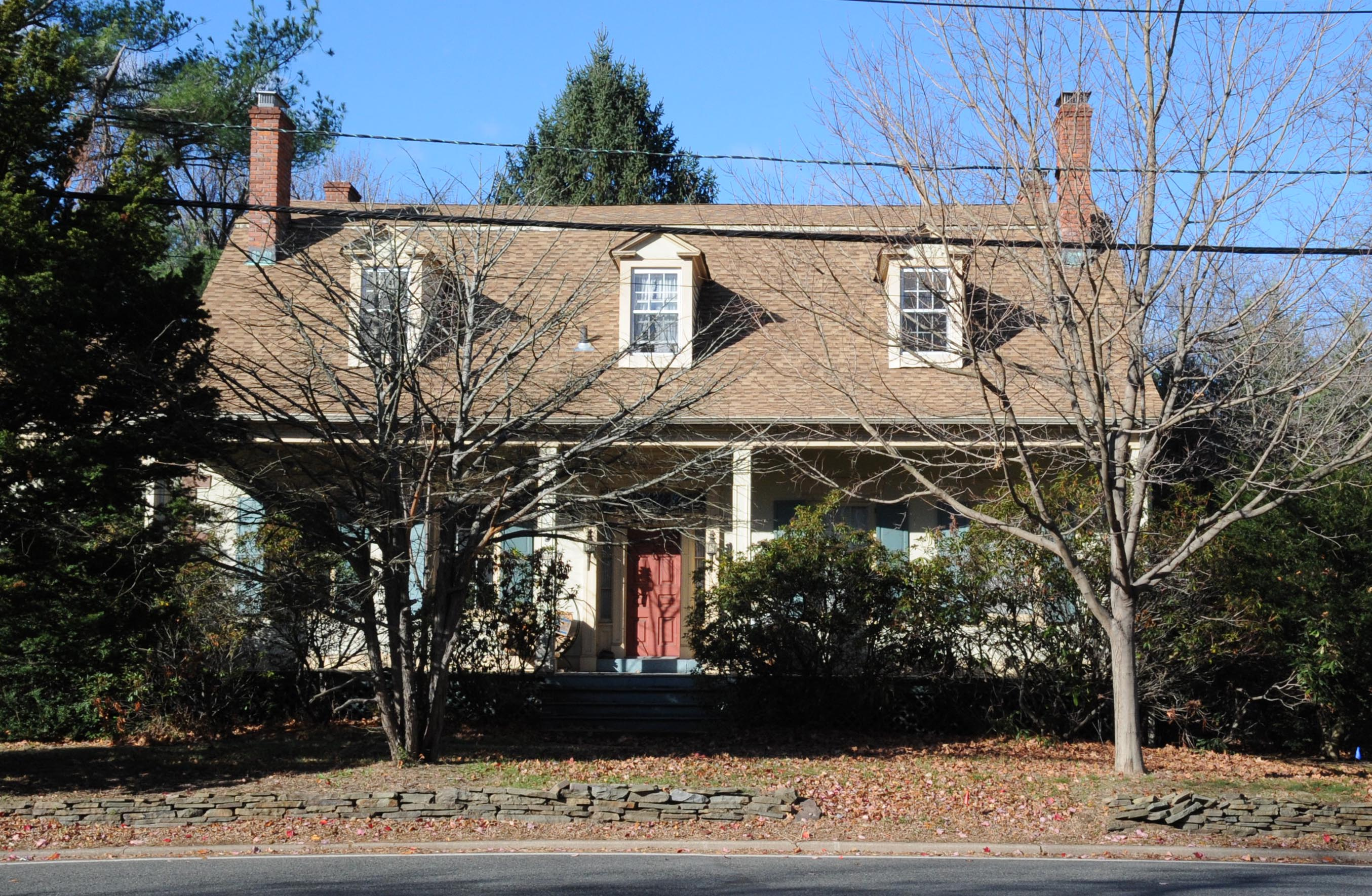 BUILT IN 1911